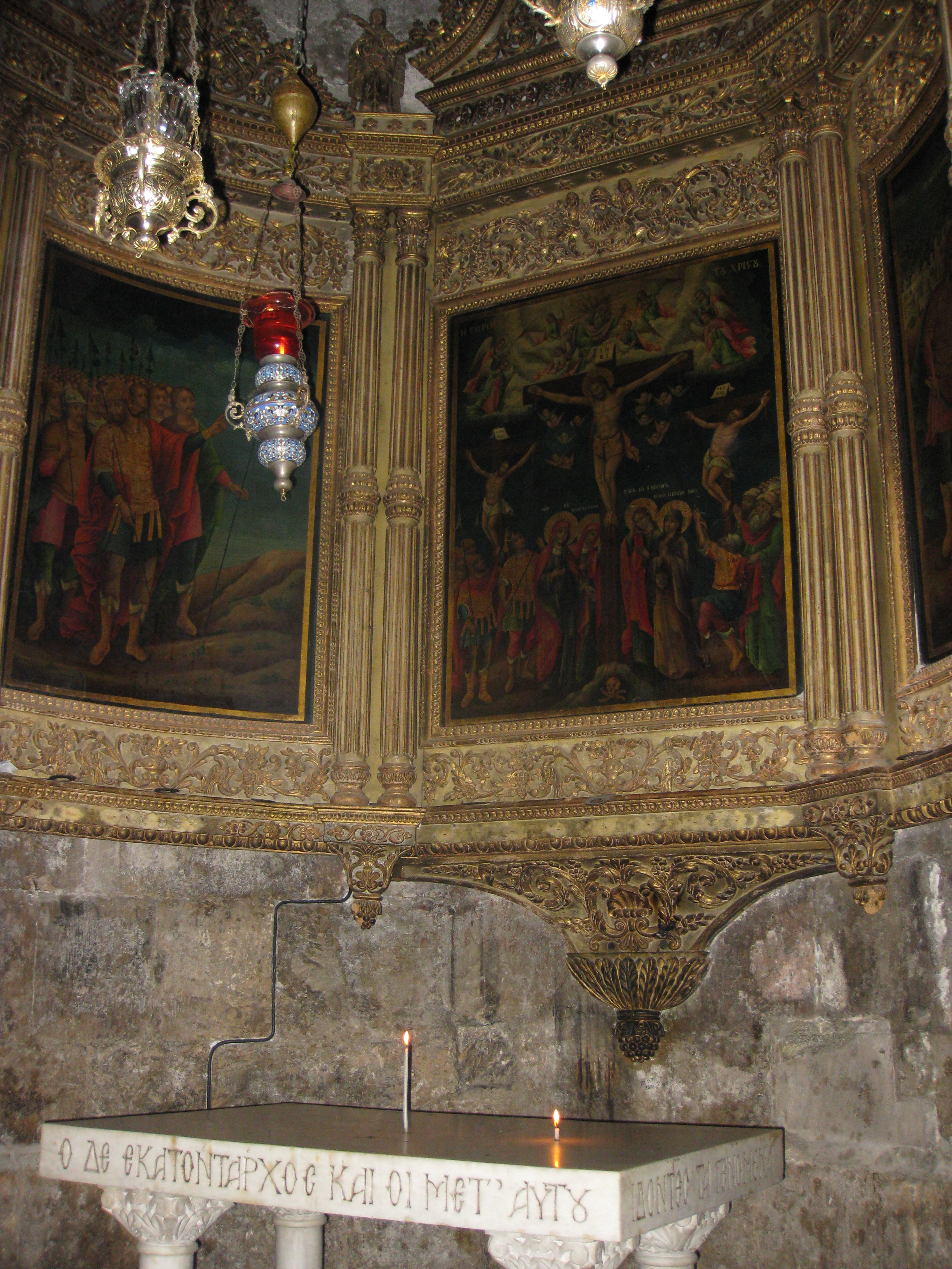 Chaple of St. Longinus